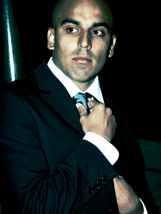 Umar Khan posing in a high fashion suit